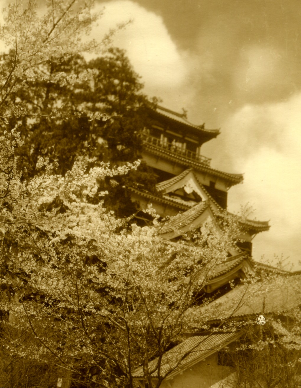 Hiroshima castle before bombed